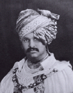 Rajaram III